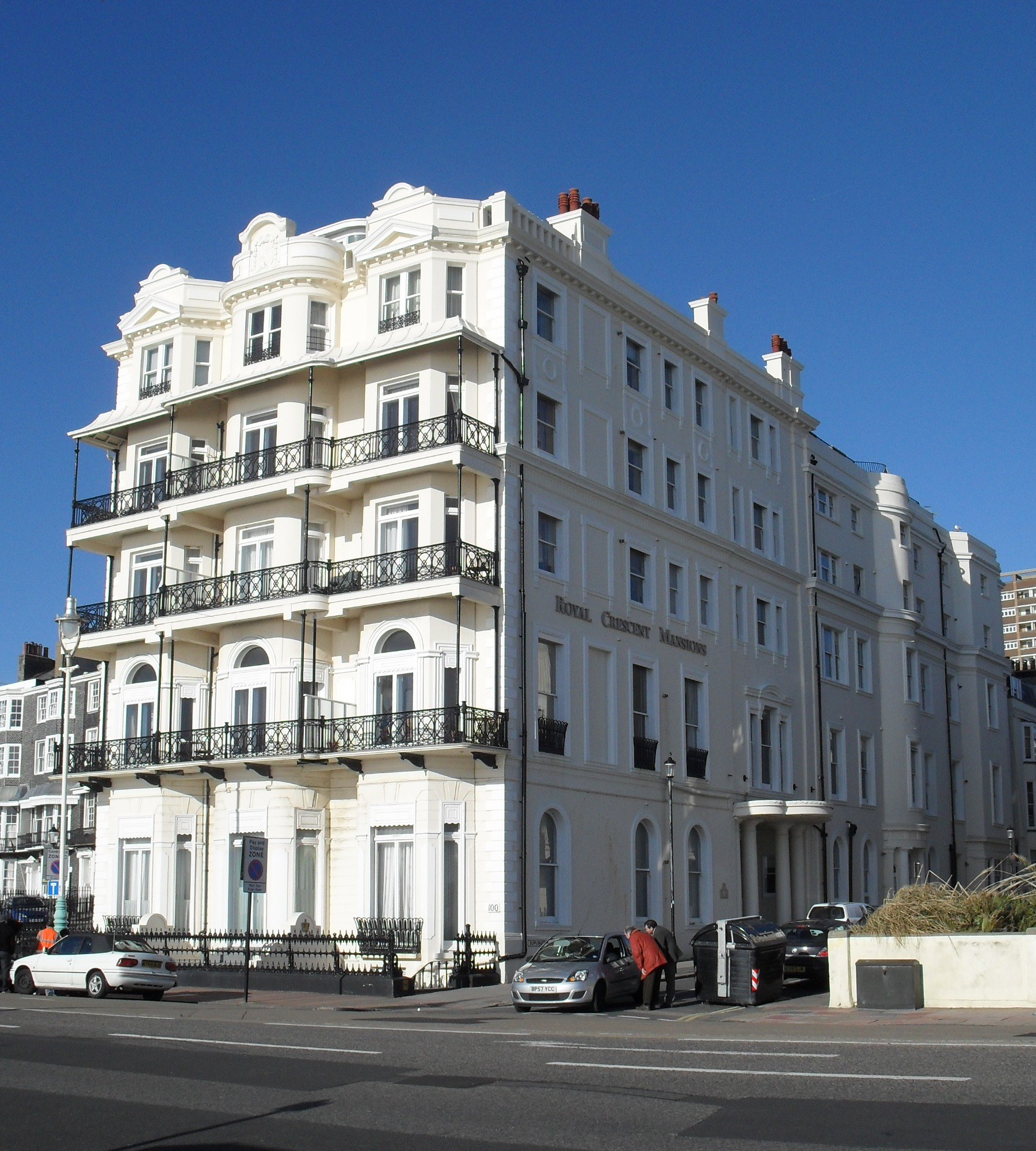 Royal Crescent Mansions (formerly the Royal Crescent Hotel), Marine Parade, Brighton. Opened as a hotel in 1857 after being converted from a two-storey house. Listed at Grade II by English Heritage (IoE Code 482119)